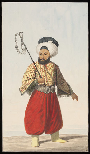 Chavusbasi or chief usher